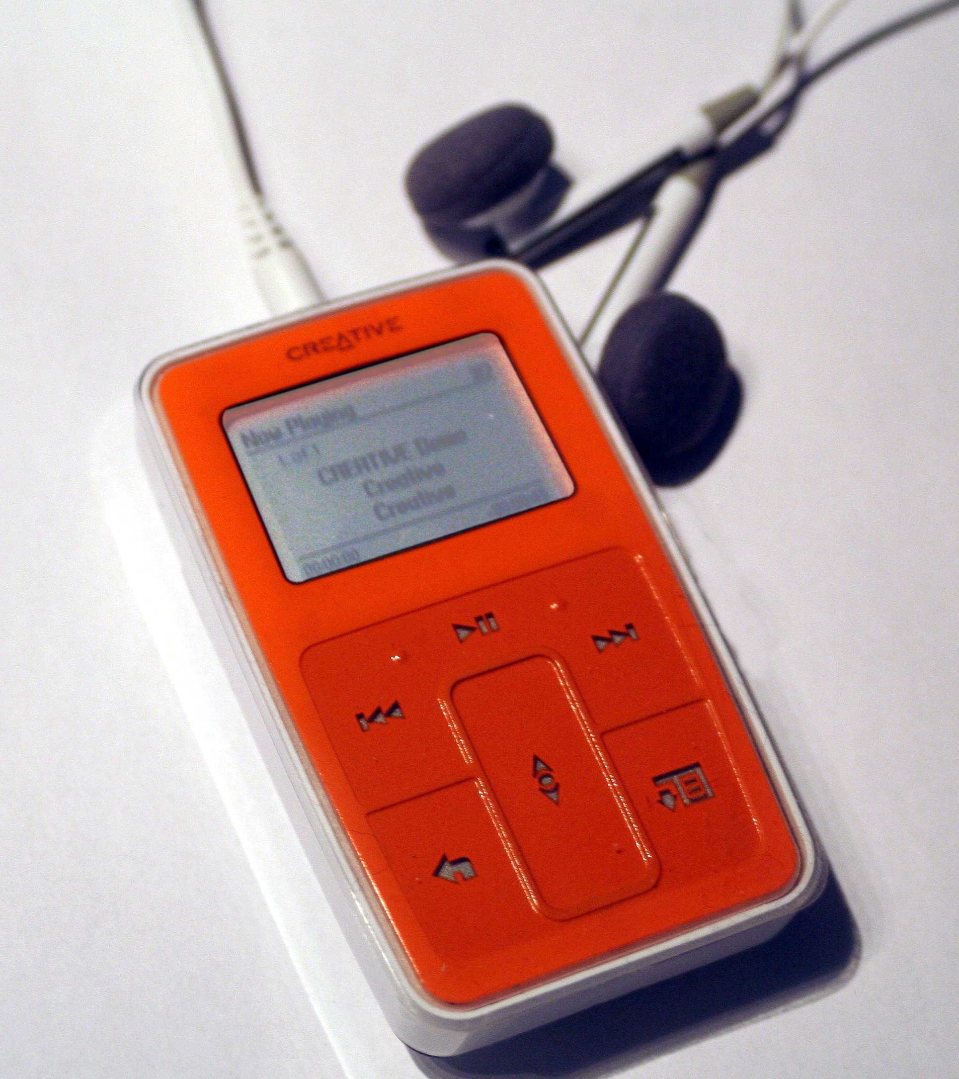 Original photograph by User:Electricmoose